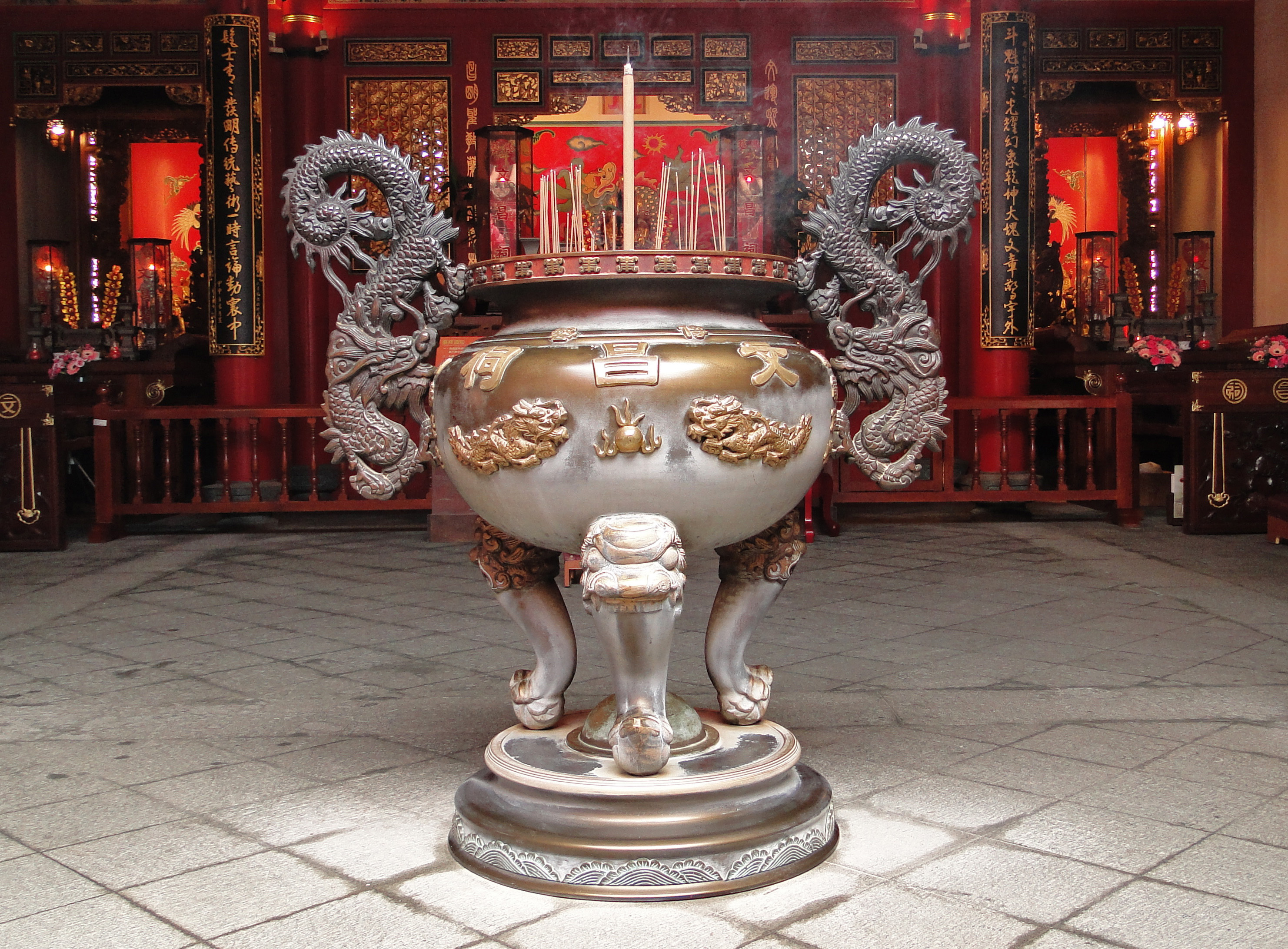 Incense burner of the Wenchang Temple in National Center for Traditional Arts, Wujie Township, Yilan County, Taiwan